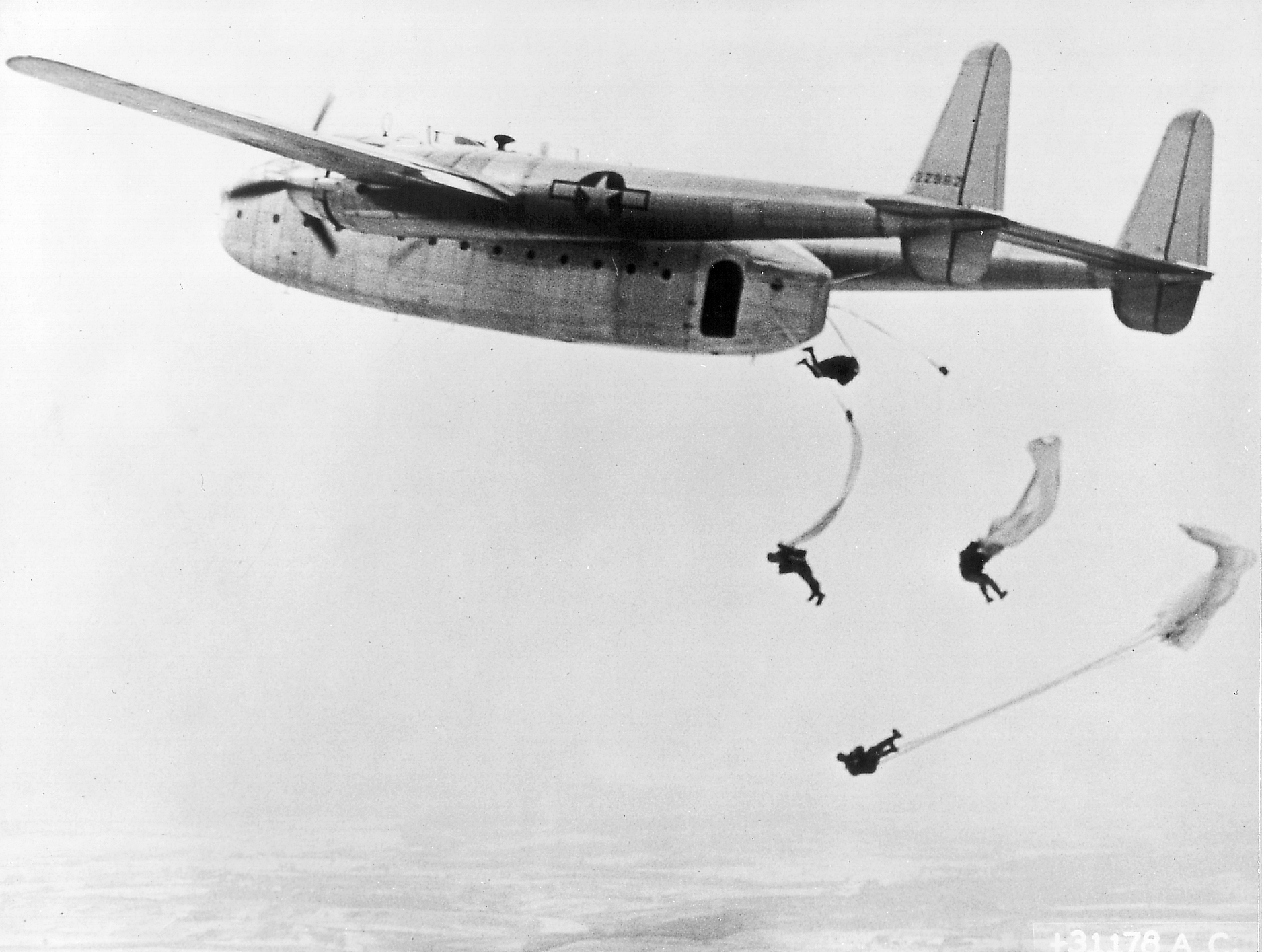 Paratroopers jumping from a Fairchild C-82 "Packet". It was primarily used for cargo and troop transport, but it also was used for paratroop operations and towing gliders. Its capacity was 41 paratroops or 34 stretchers and it had clam-shell rear doors that allowed easy entry of trucks, tanks, artillery, and other bulky cargo.